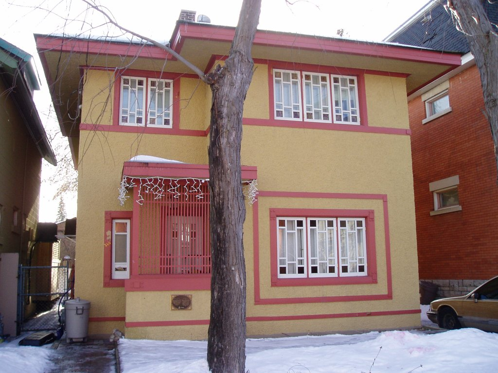 Sullivan House in Ottawa, Canada designed by Francis Sullivan